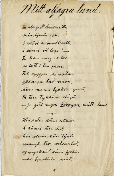 Mítt alfagra land - national anthem of the Faroe Islands by Símun av Skarði, original manuscript of February 1st 1906